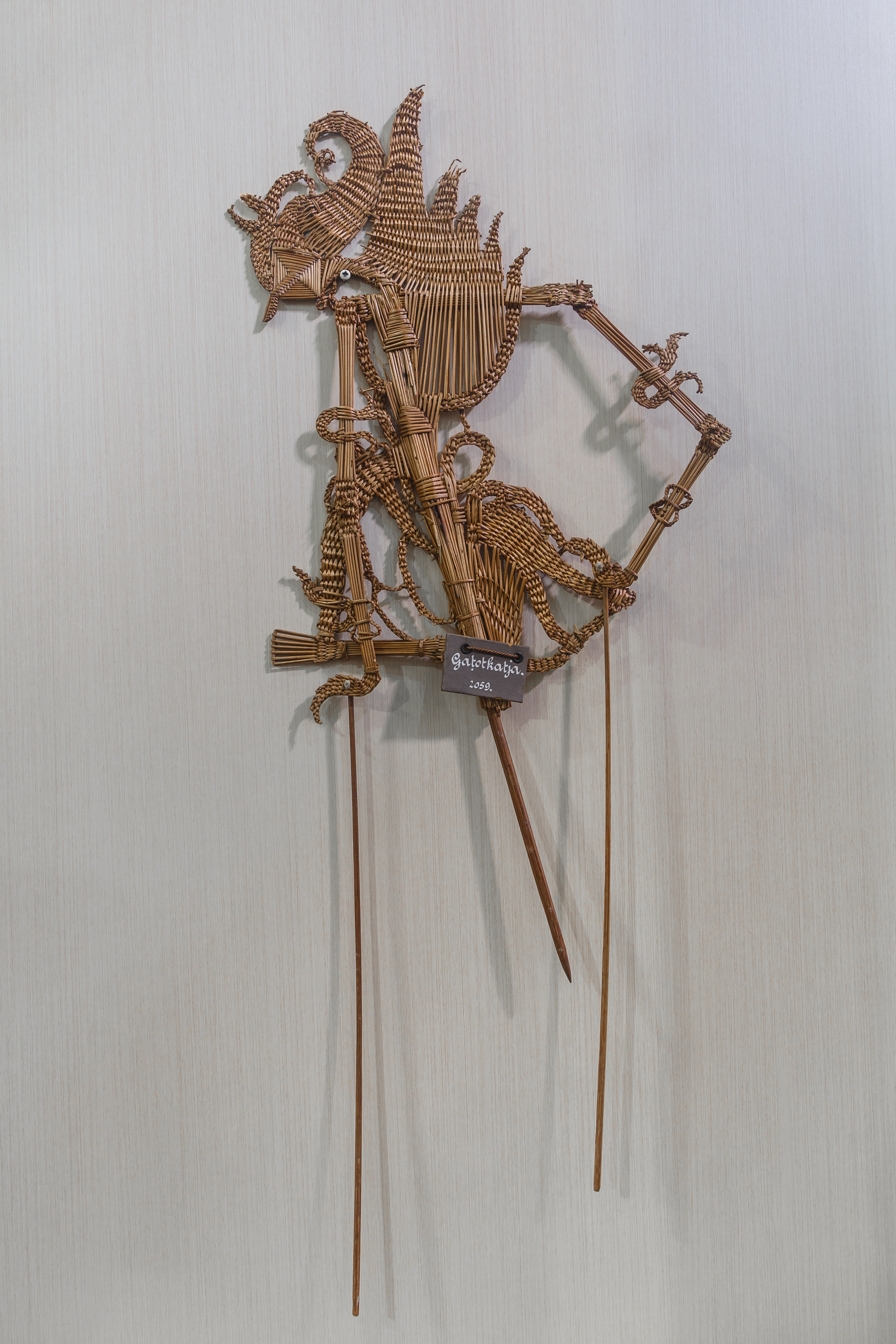 Jakarta, Indonesia: A wayang suket (grass puppet) from Central Java. In Javanese Language, suket means grass. This puppet is made of grass or dry hay and represents Gatotkaca who was a powerful figure, widely known by the children who loved to make suket puppets in their spare time.